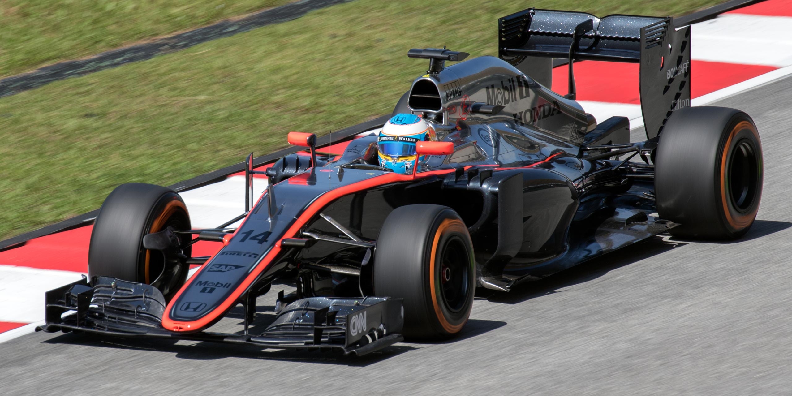 Formula One 2015 Rd.2 Malaysian GP: Fernando Alonso (McLaren)